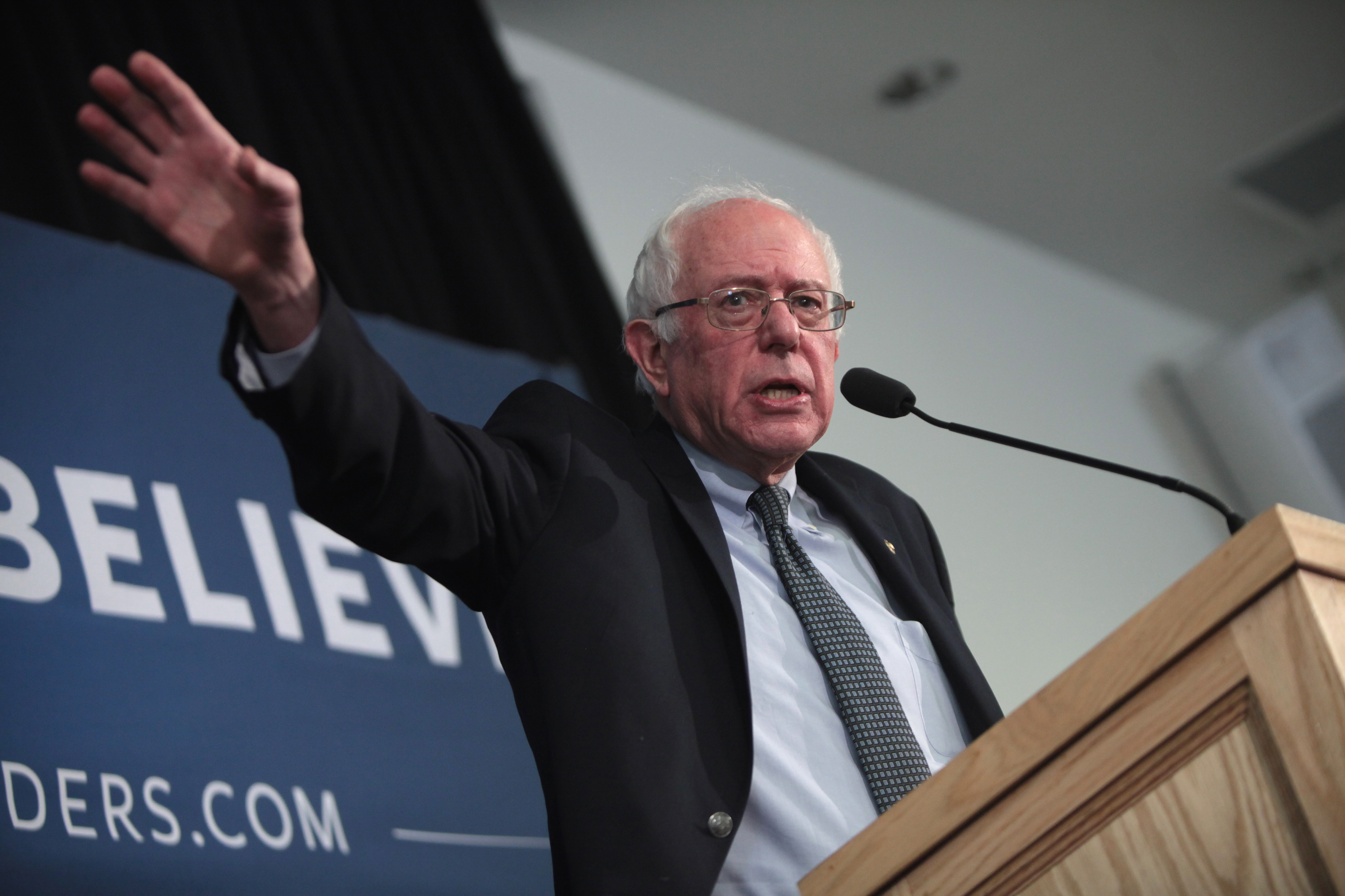 Bernie Sanders speaking at an event in Hooksett, New Hampshire.